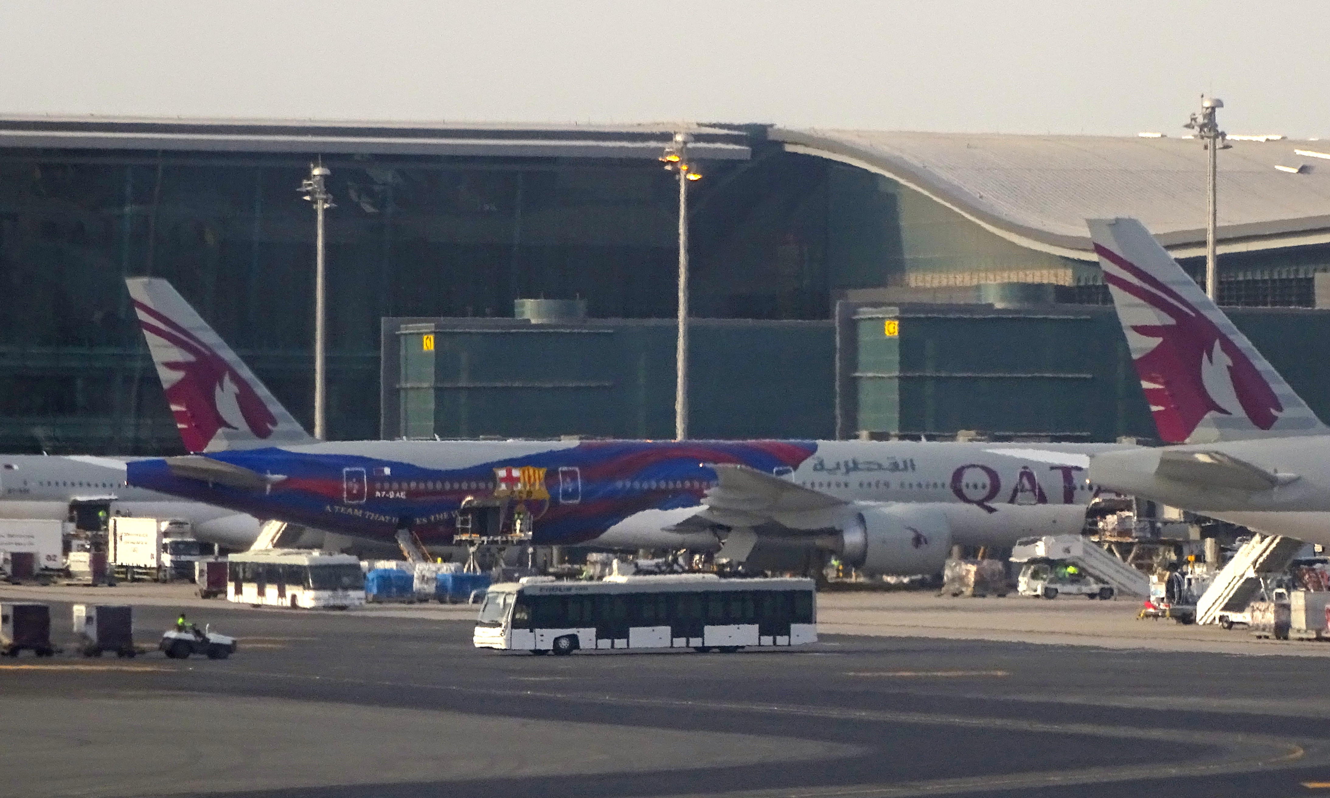 Qatar Airways FC Barcelona plane